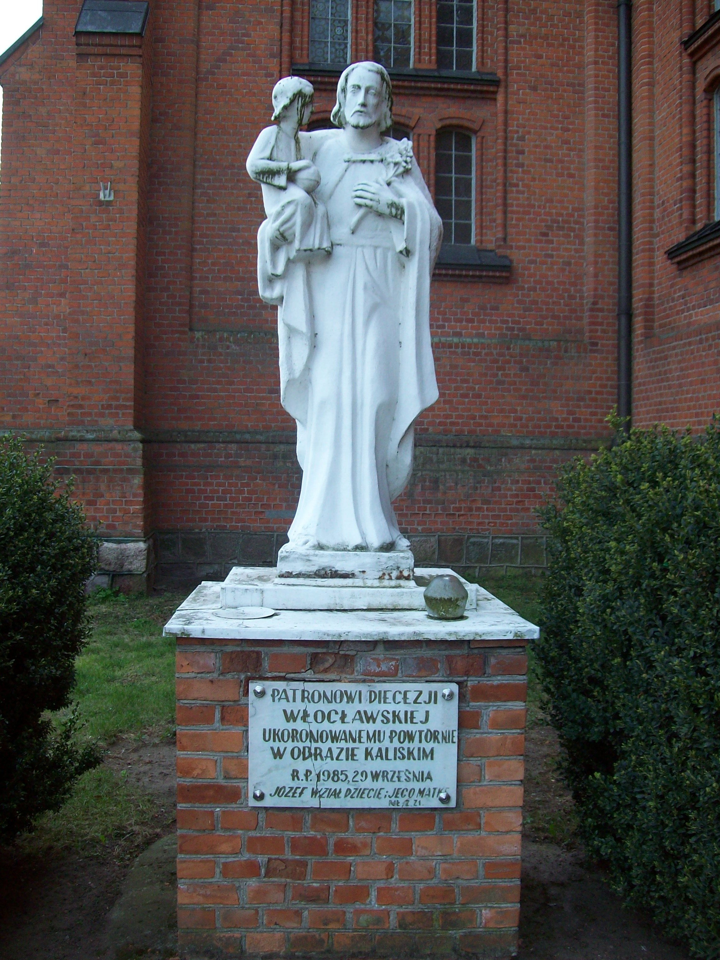 Saint Joseph figure near catolic church in Bytoń (PL)